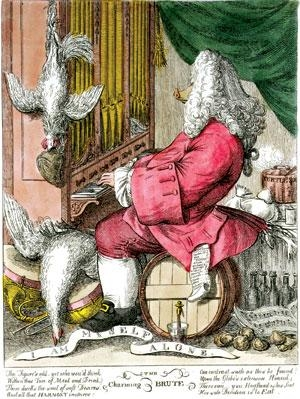 Engraving caricaturing George Frideric Handel: I Am Myself Alone, or The Charming Brute